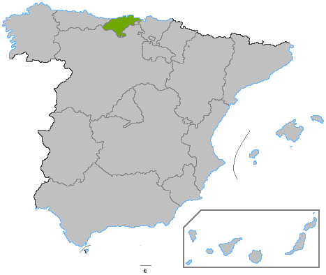 Location of Cantabria, in Spain. Basado en: ProvPont.jpg Source: Designed by Satesclop. Original picture, designed by Sobreira.